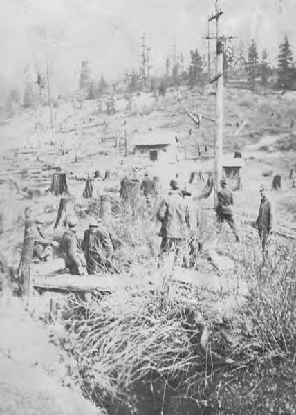 PH Coll 1043.46a Subjects (LCSH): Powder magazines--Idaho--Coeur d'Alene